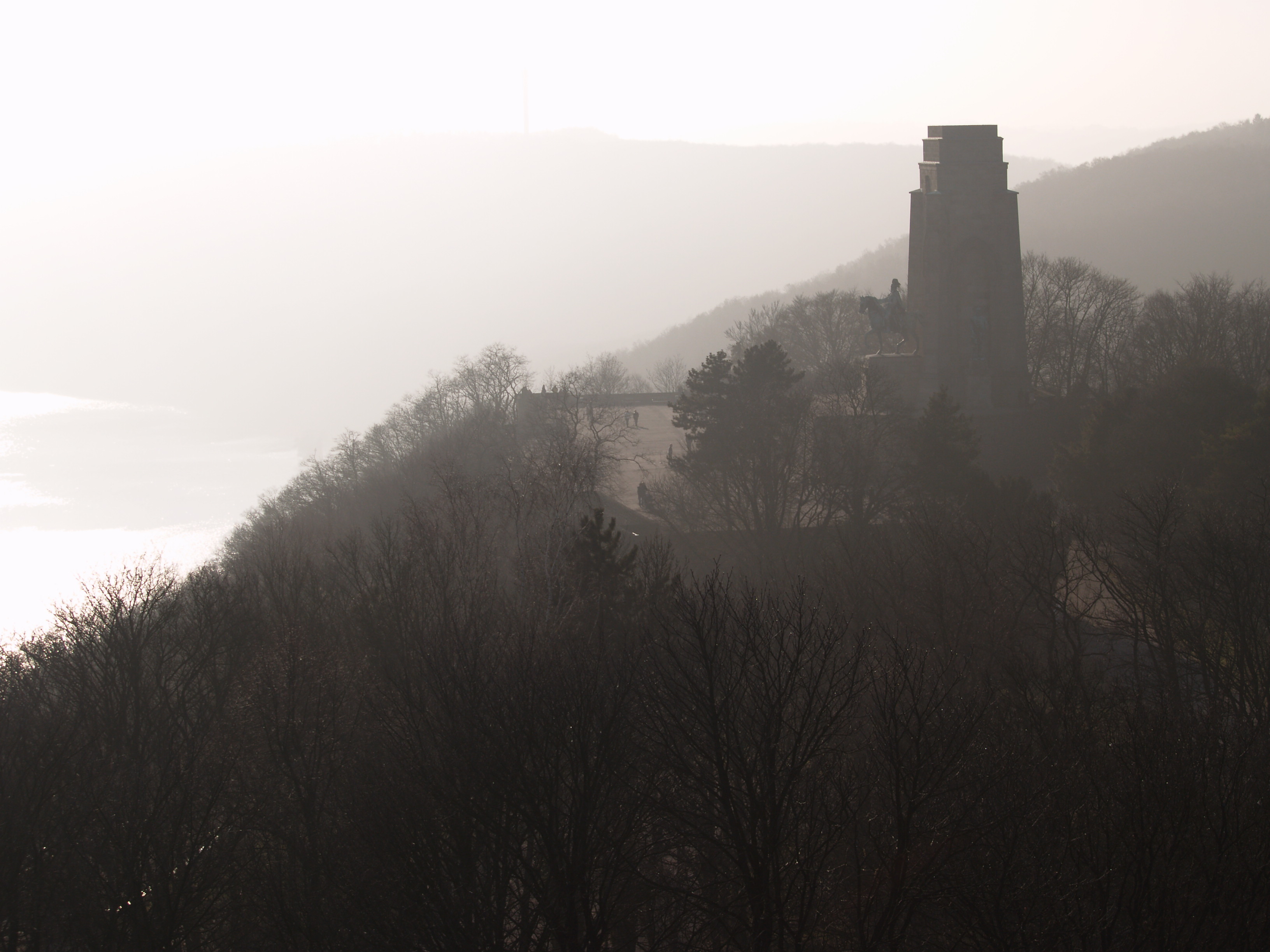 Hohensyburg monument, seen from von Fincke tower